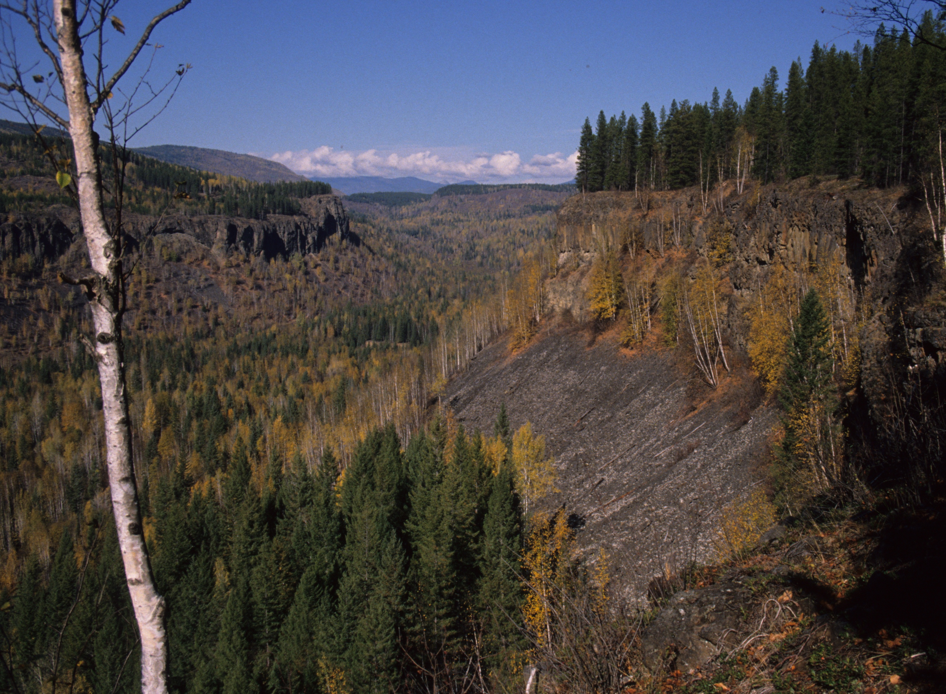 Photo by Roland Neave, contributor to Wells Gray Park articles.